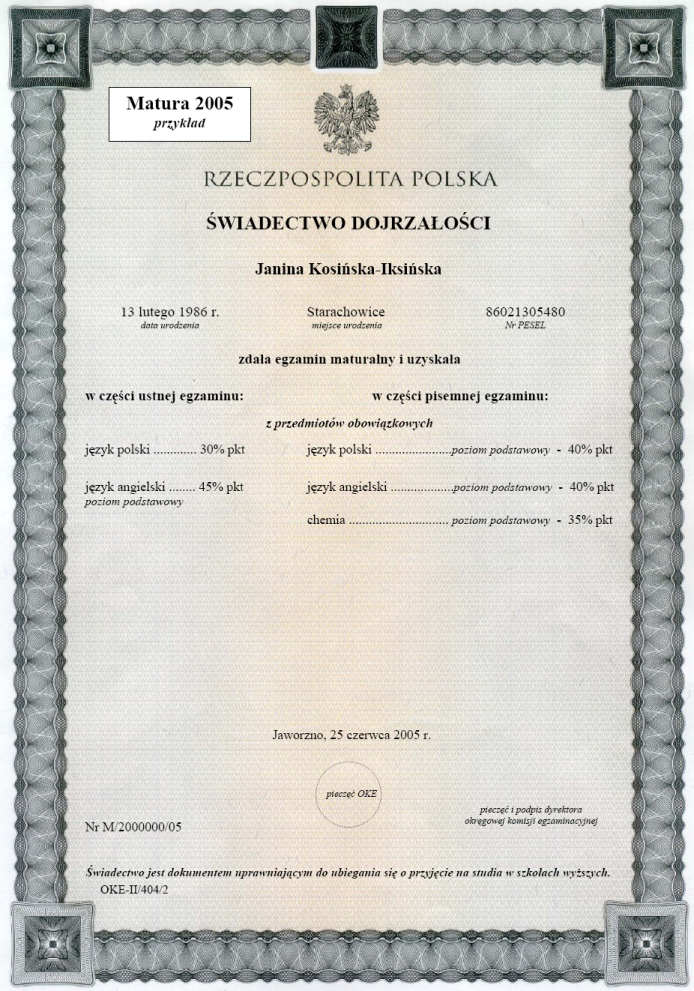 An example of the Polish Matura Certificate